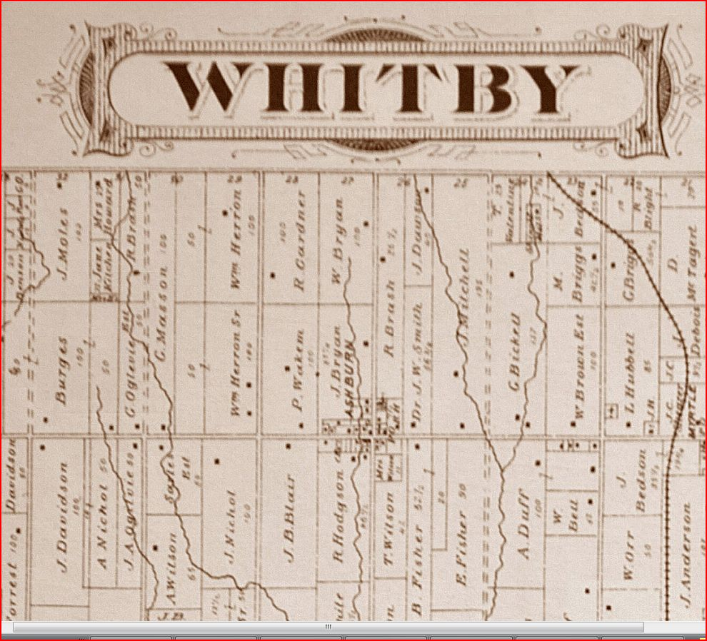 1877 map of Whitby Township, Ontario, Canada, showing the hamlet of Ashburn. From The Illustrated Historical Atlas of the County of Ontario (Toronto: Beers 1877).